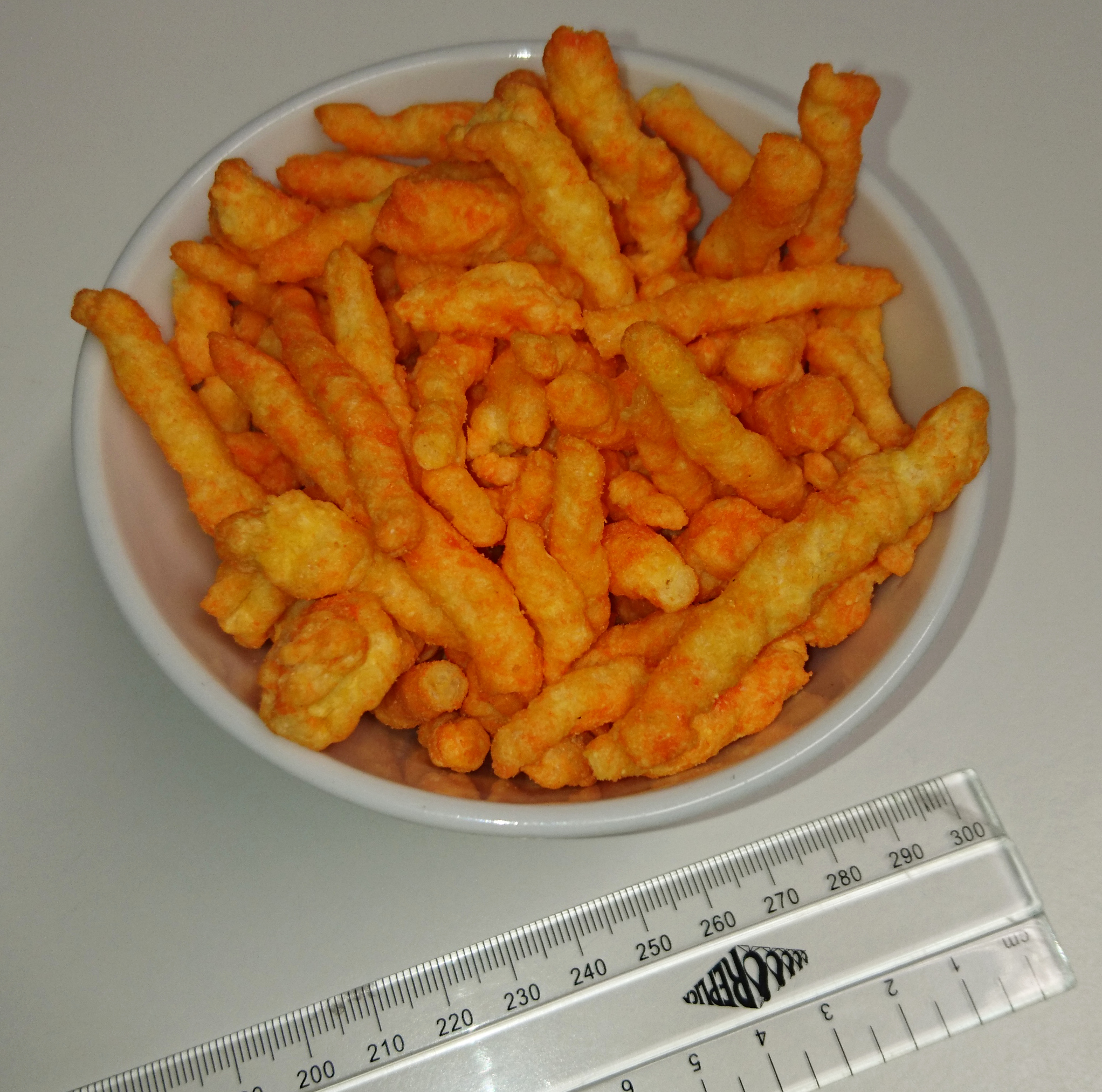 A bowl of the South African snack NikNaks with a ruler indicating their size.